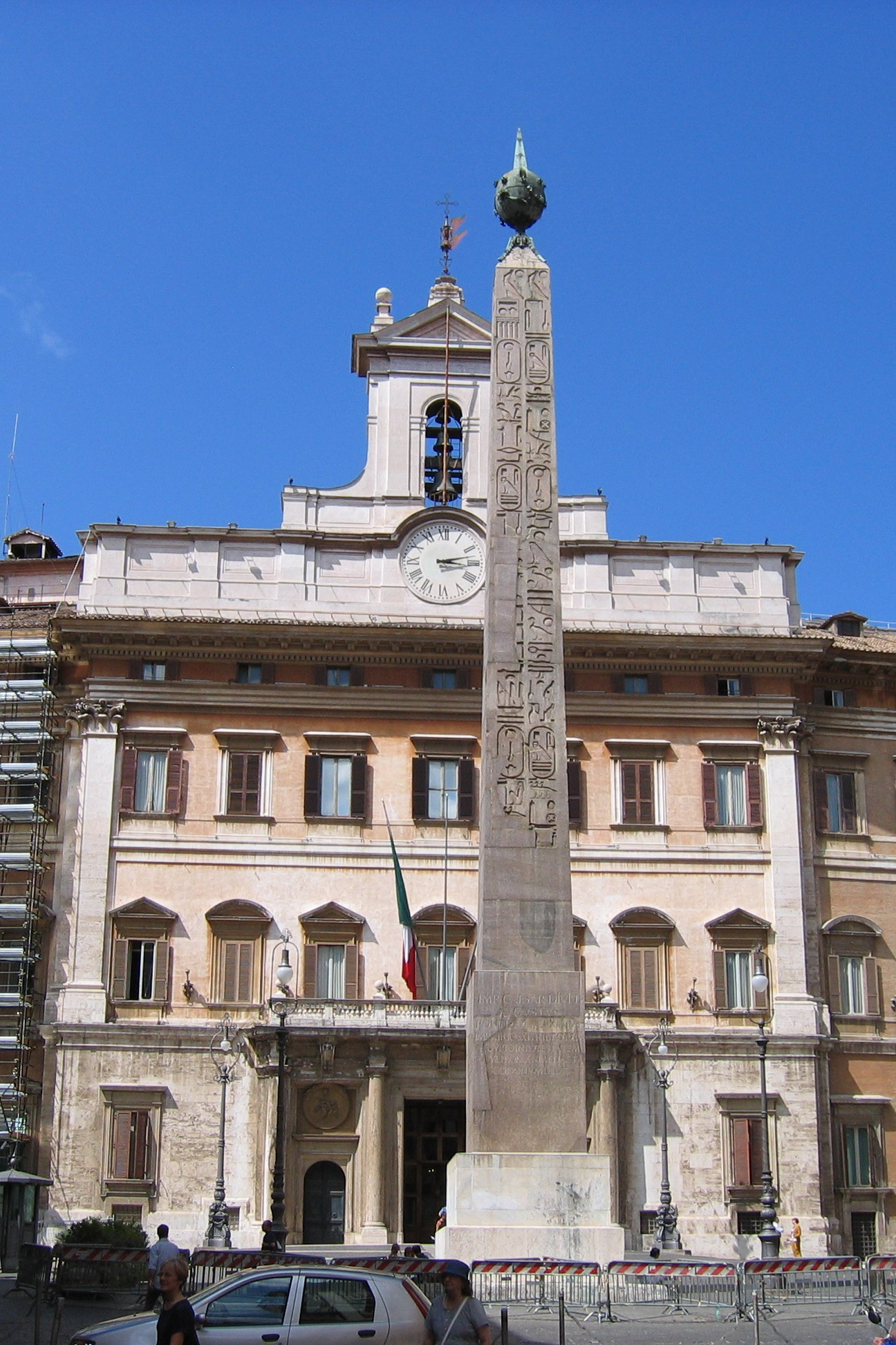 This is a photo of the Solare Obelisk, in front of the Palazzo Montecitorio, in Rome, taken by a Canon S500.